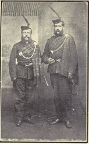 Lt Col George R Anderson (left), Scottish Rifles Nova Scotia and commanding officer of the Victoria Rifles (Nova Scotia)